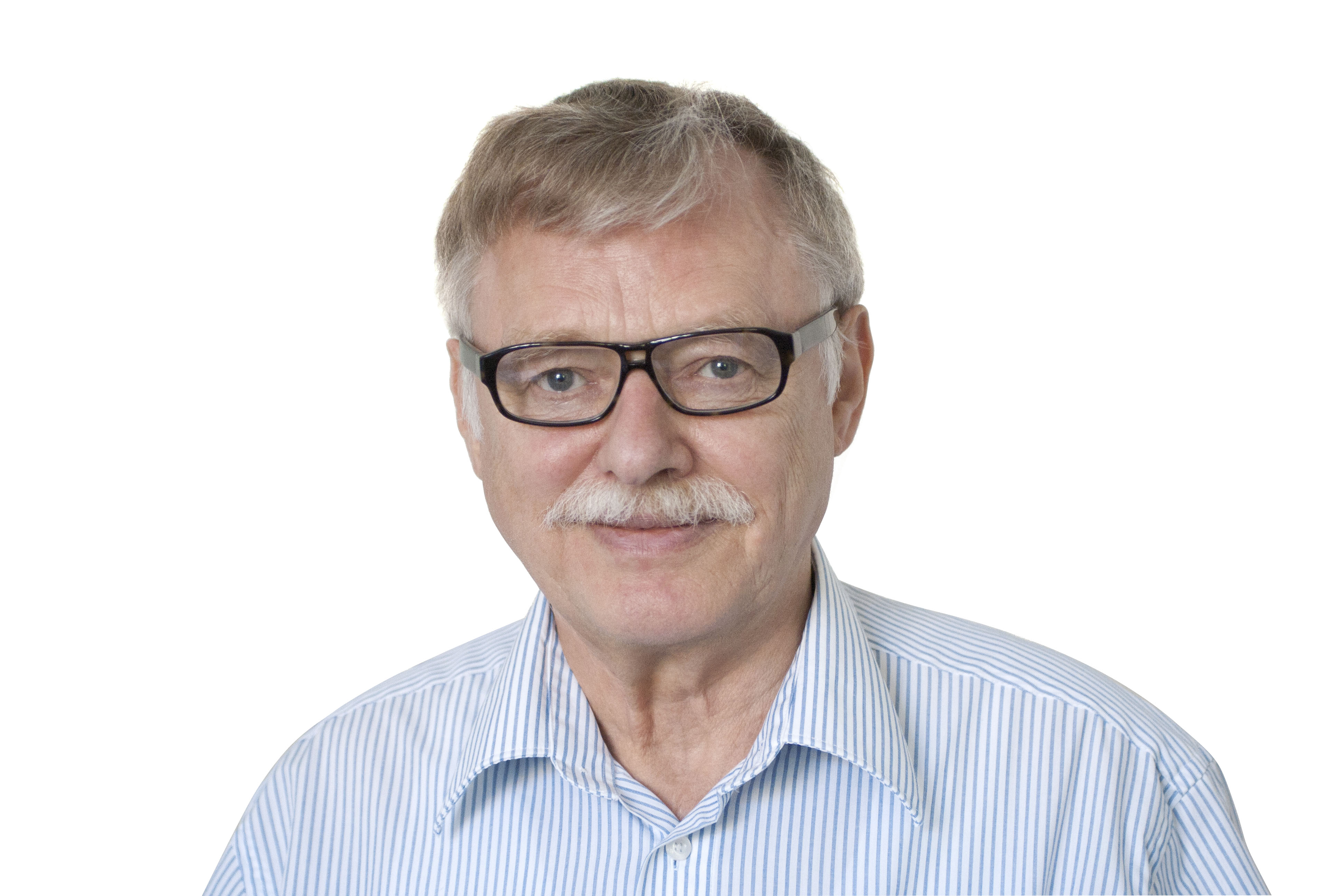 Personal Photo of Agnar Hoeskuldsson